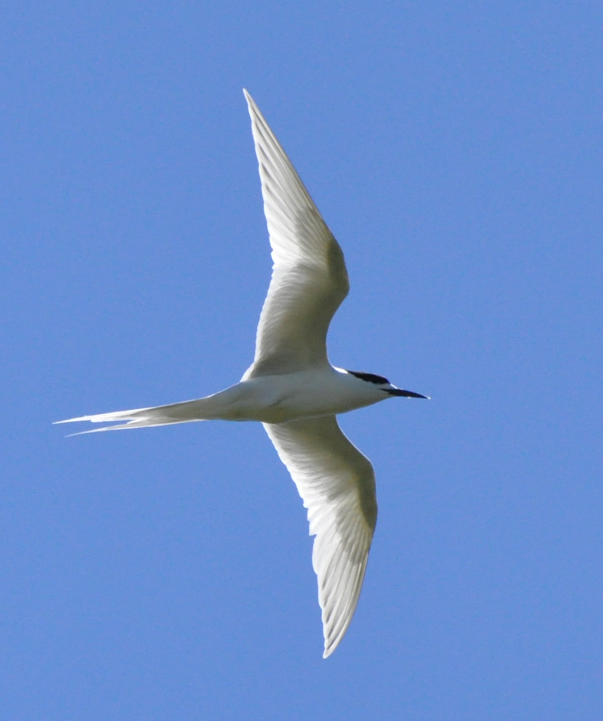 Sterna striata (White-fronted tern) on Tiritiri Matangi Island, New Zealand